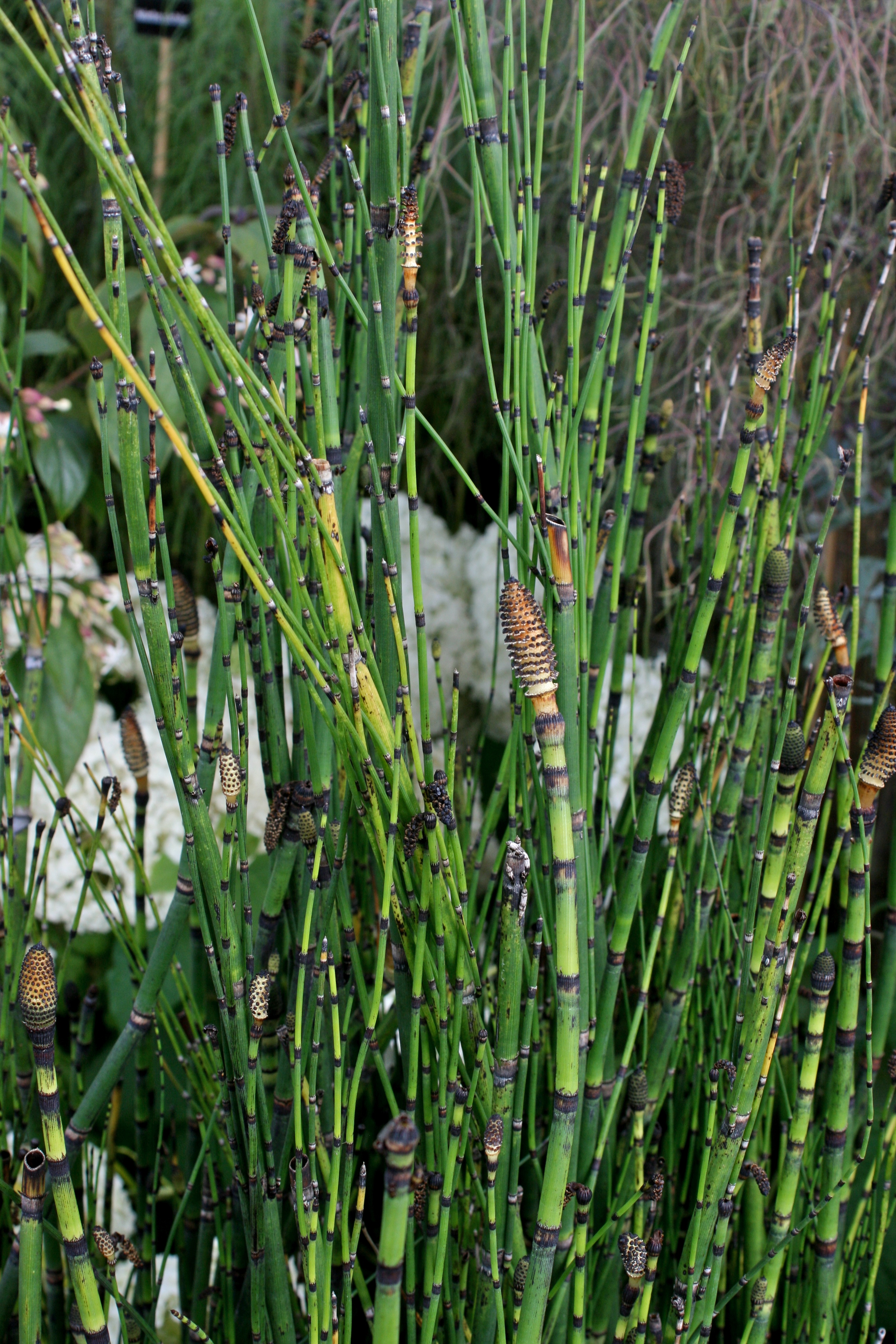 Equisetum hyemale, syn. "Equisetum camtschatcensis" nom. nud. Taken during Tatton Park Flower Show 2009